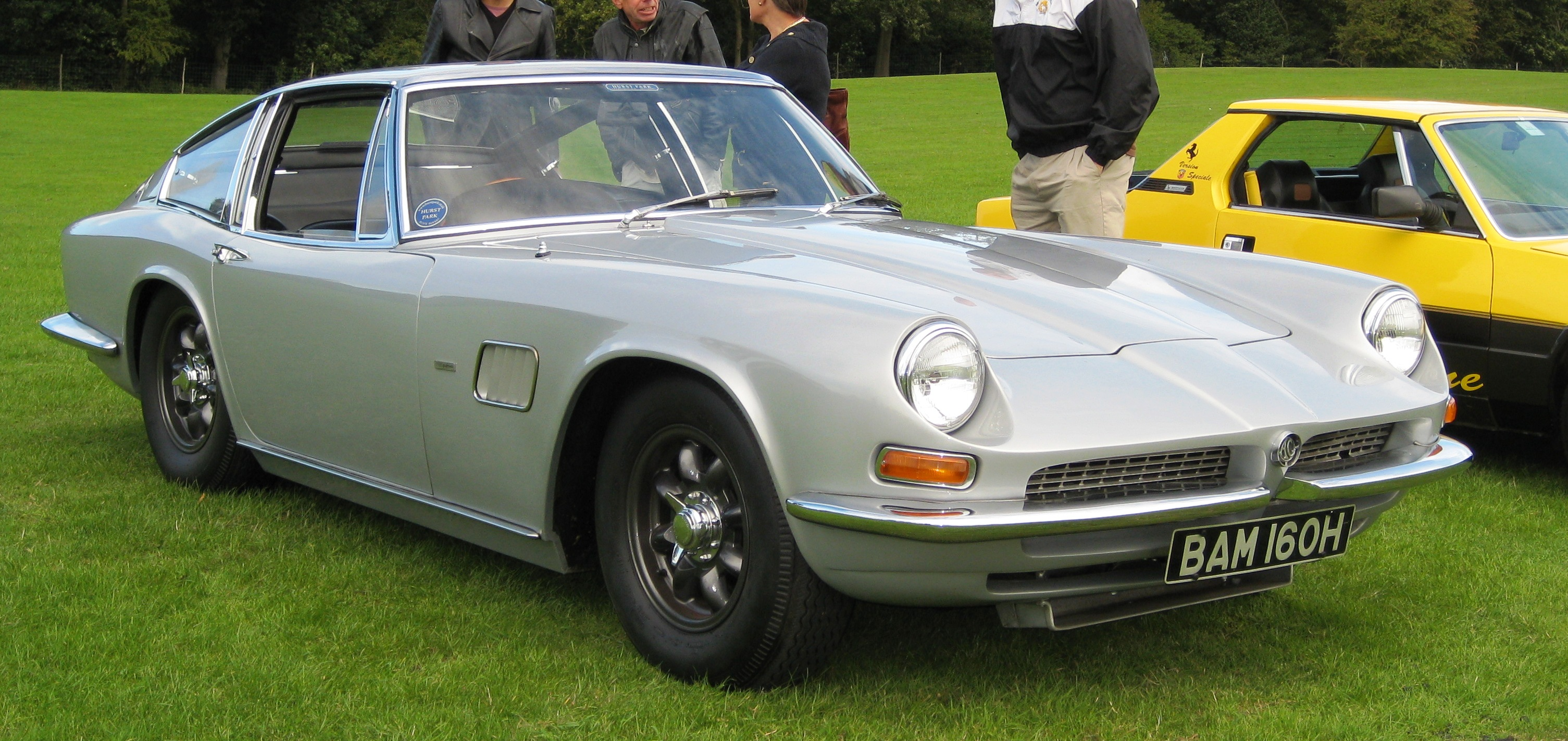 AC 428 at Knebworth classic car show. I find this car beautiful.